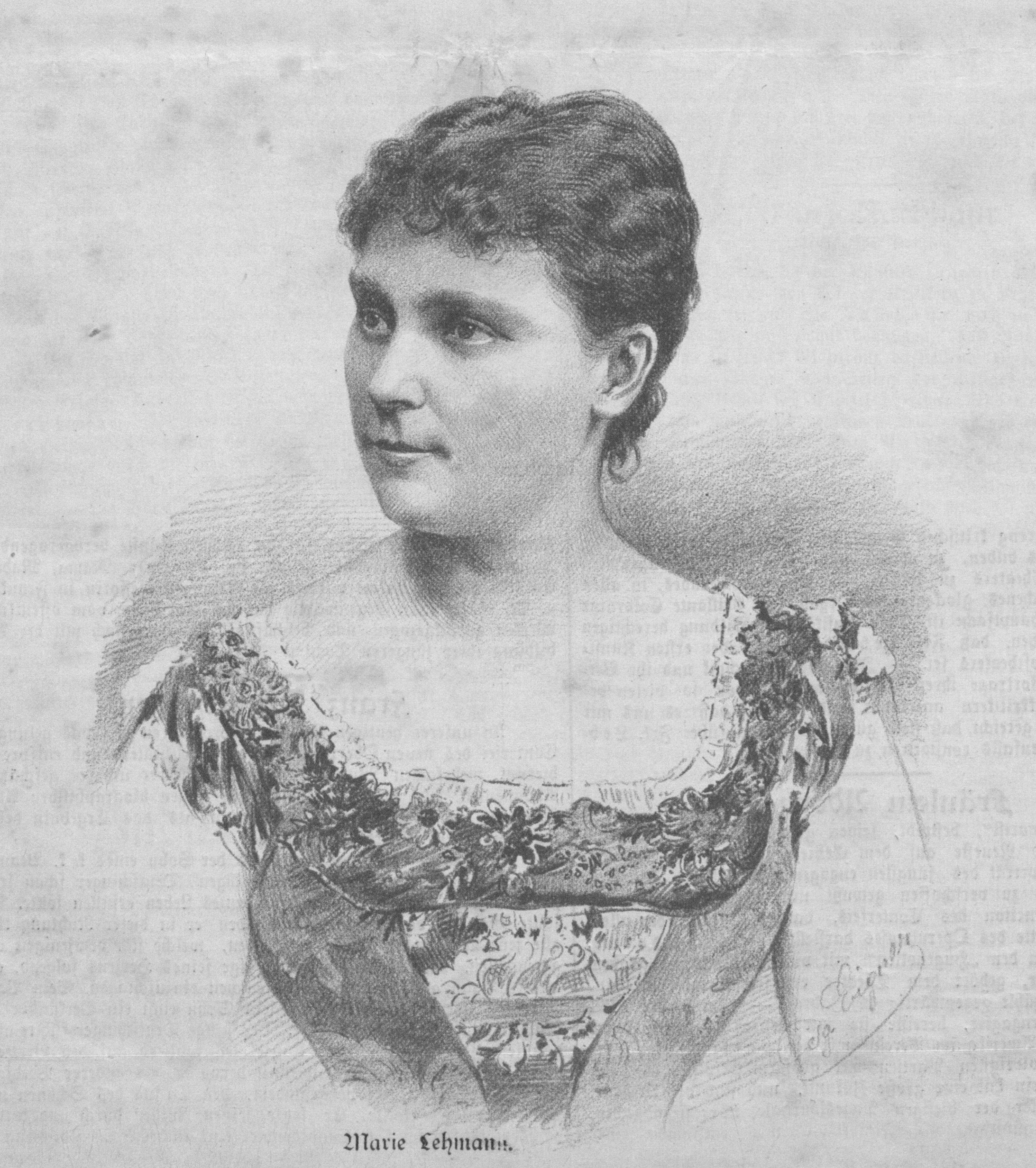 Portrait of Marie Lehmann (1851-1931), German opera singer.